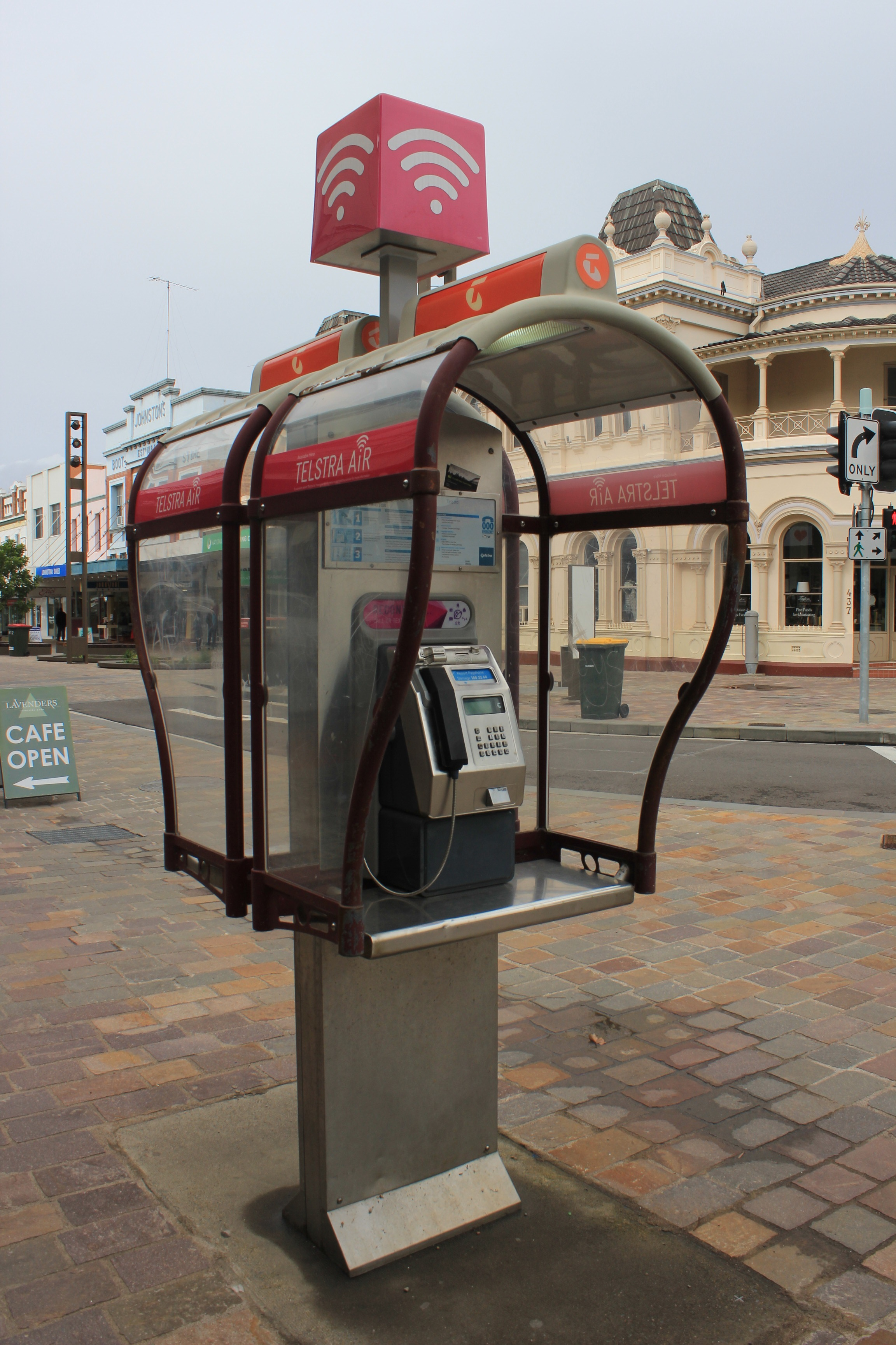 A Telstra payphone in Australia that has also been enabled as a Wi-FI hotspot. Taken on August 4th 2016.